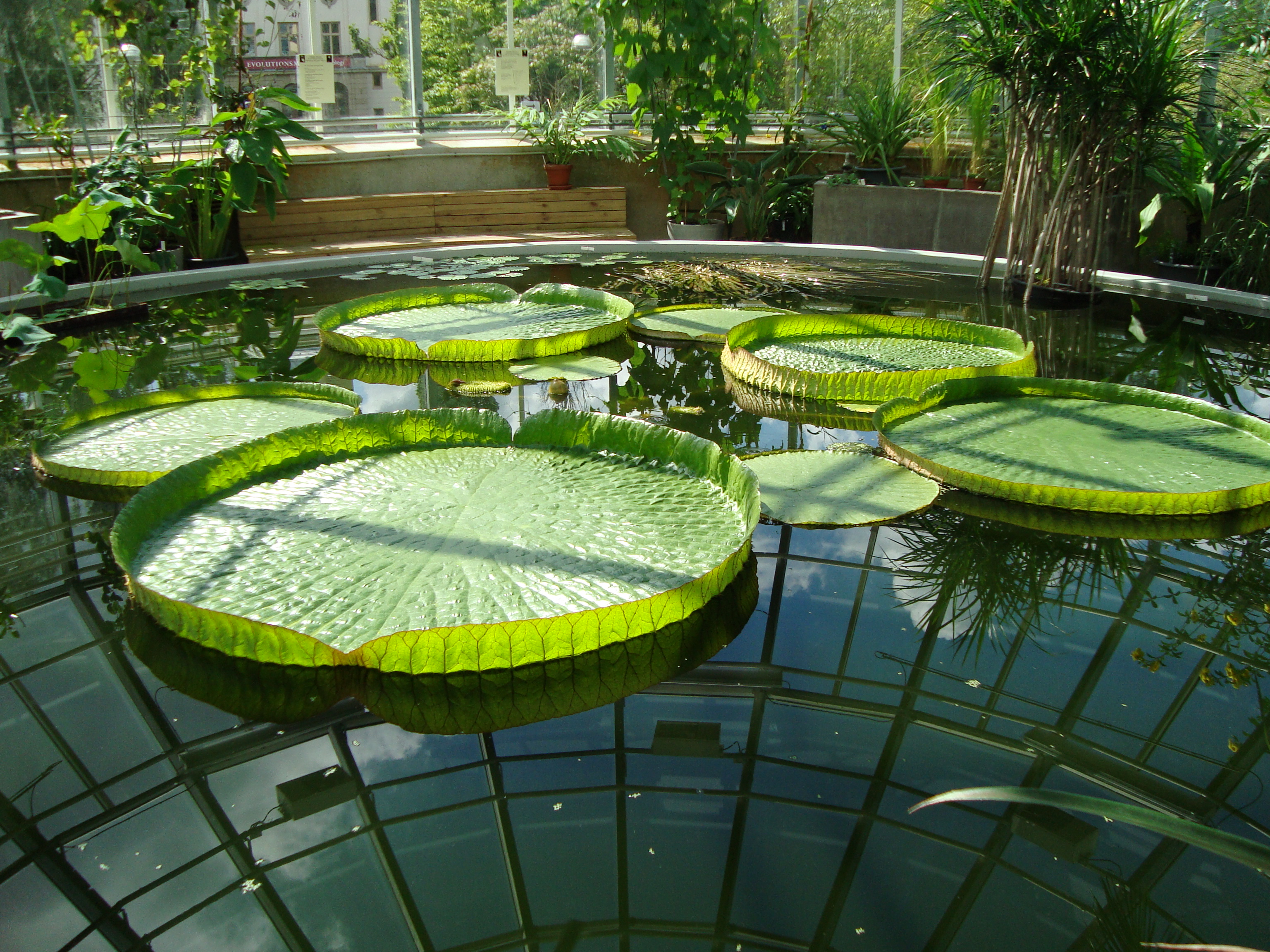 Tropical greenhouse, Uppsala botanical garden, Sweden. Victoria amazonica